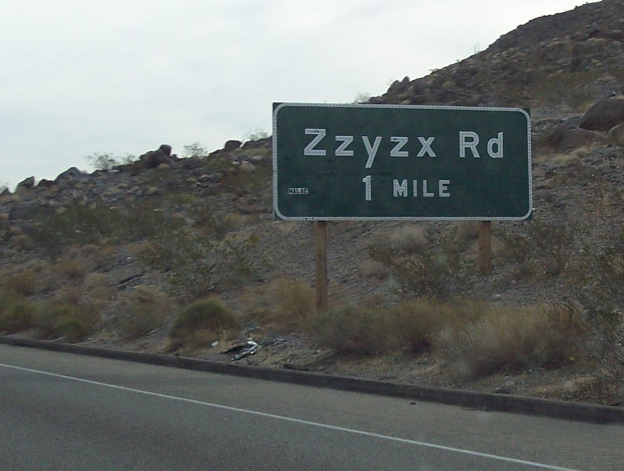 Digital photo of a highway sign (see Zzyzx, California) created by User:Tijuana Brass. Licensed under the terms of the GNU Free Documentation License, v1.2 or later.